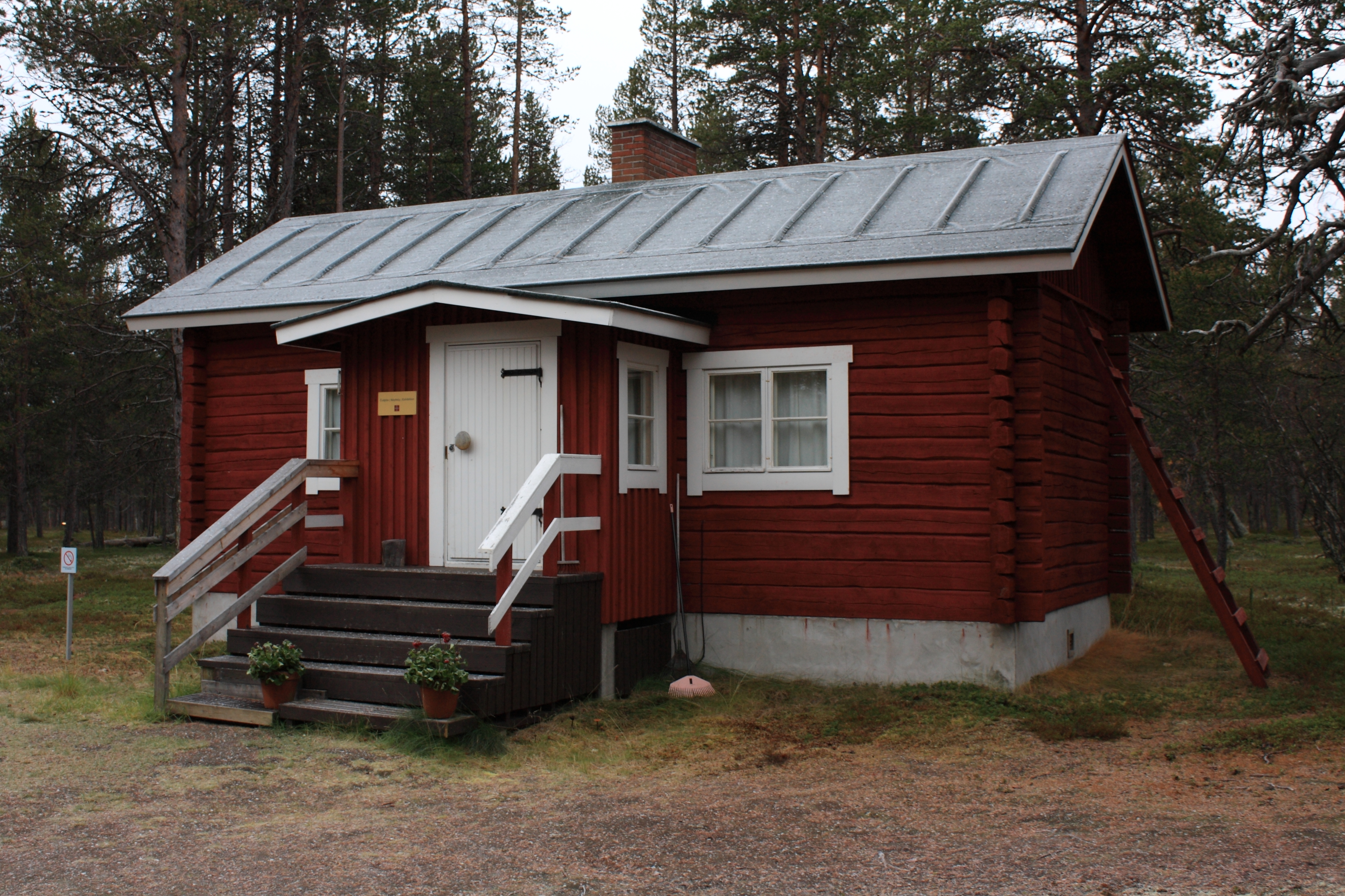 A skolt home in Sevettijärvi, Inari, Finland which is now acting as a museum. The goverment built this kind of standard homes for skolts when they were evacuated from Petsamo area after the second world war.